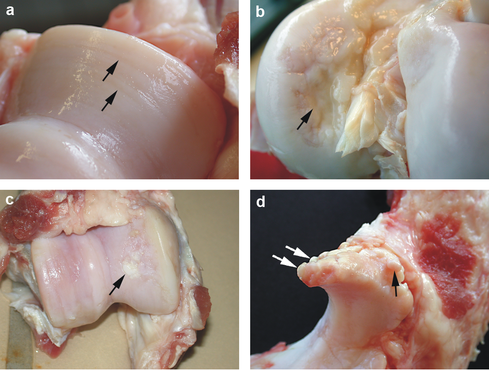 Macroscopical joint lesions in sows. a: Cartilage erosion (arrows) on the medial humeral condyle. b: Cartilage ulceration (arrow) on the medial femoral condyle. c: Cartilage repair (arrow) of the medial femoral condyle d: Marginal osteophytes (arrows) on processus anconeus of ulna.